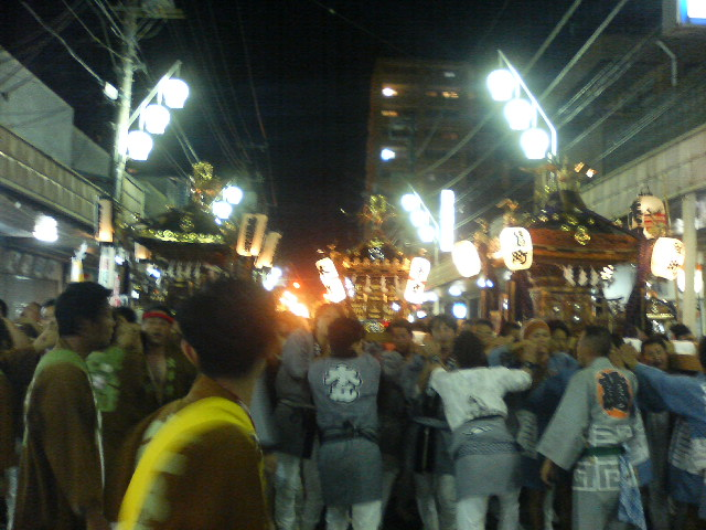 3united Odawara mikoshi.you can see Odawara on May 5.